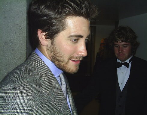 Jake Gyllenhaal on hand for the opening of Proof